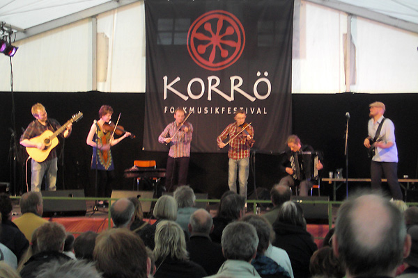 Nomas playing at Korrö Folkmusikfestival 2009 in Sweden.